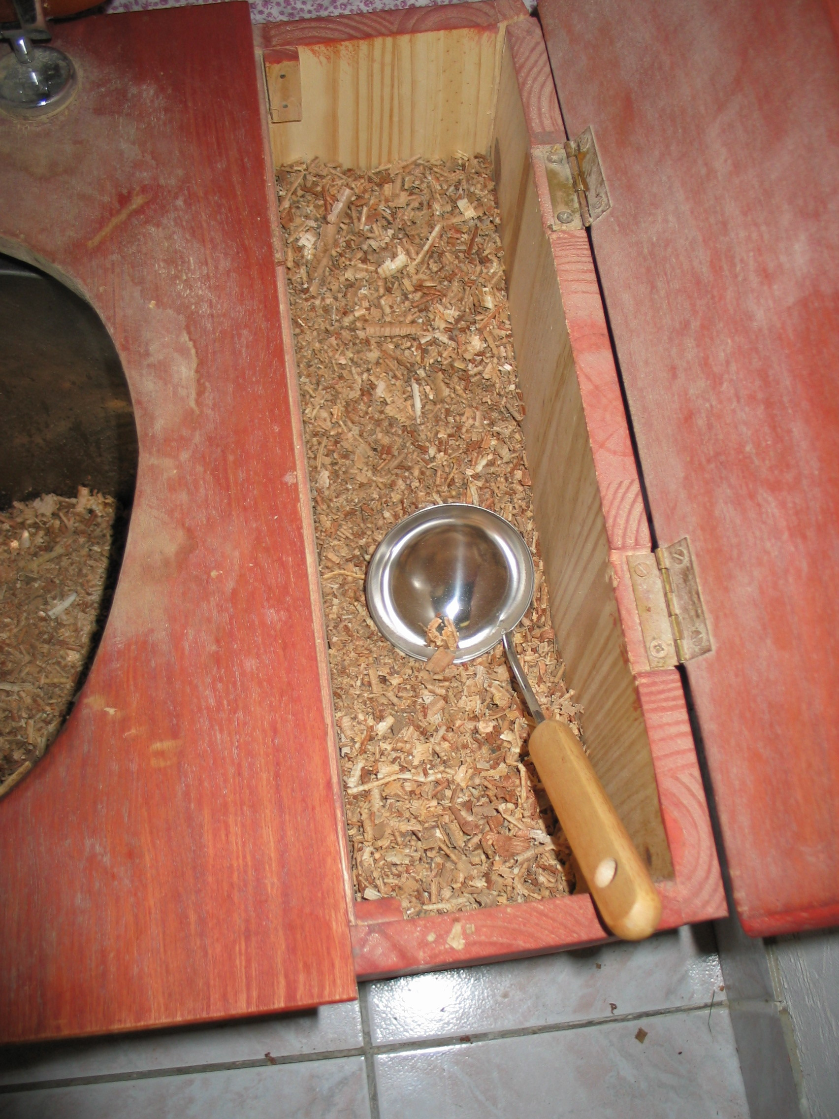 Zoom on composting toilet.